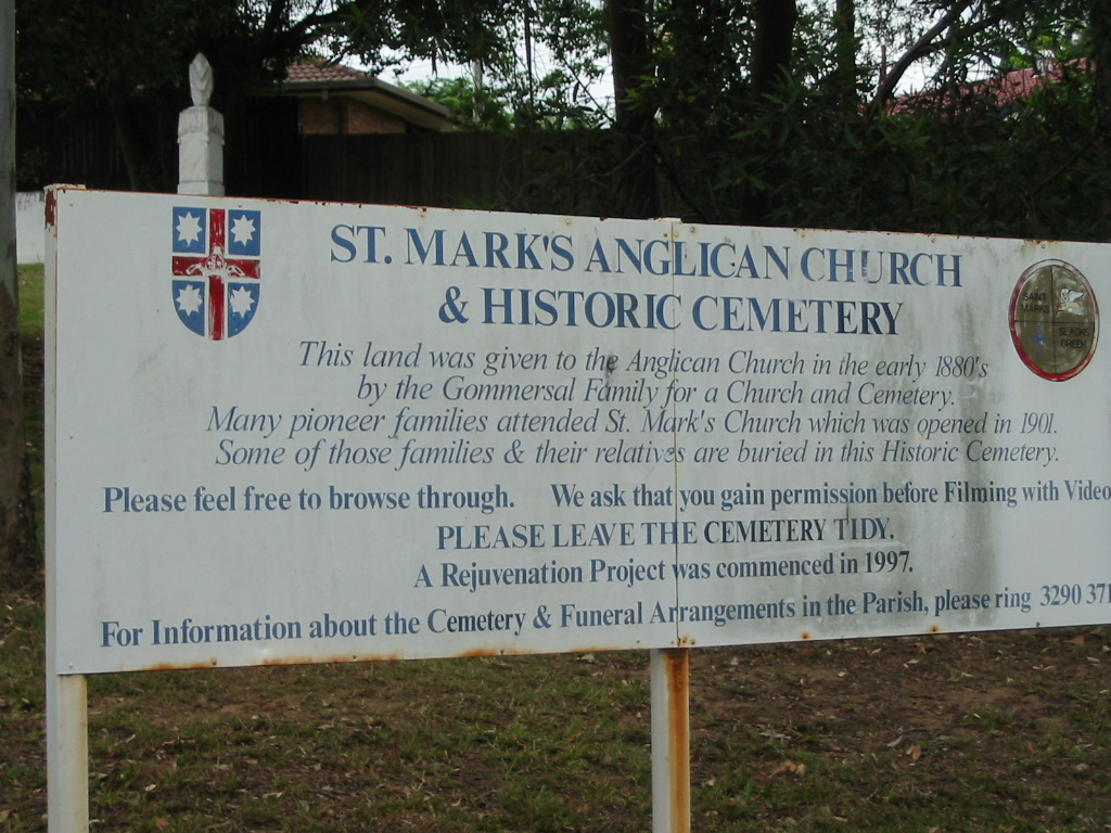 St Mark's Anglican Church, Slacks Creek - sign, 2006